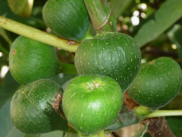 Immature figs